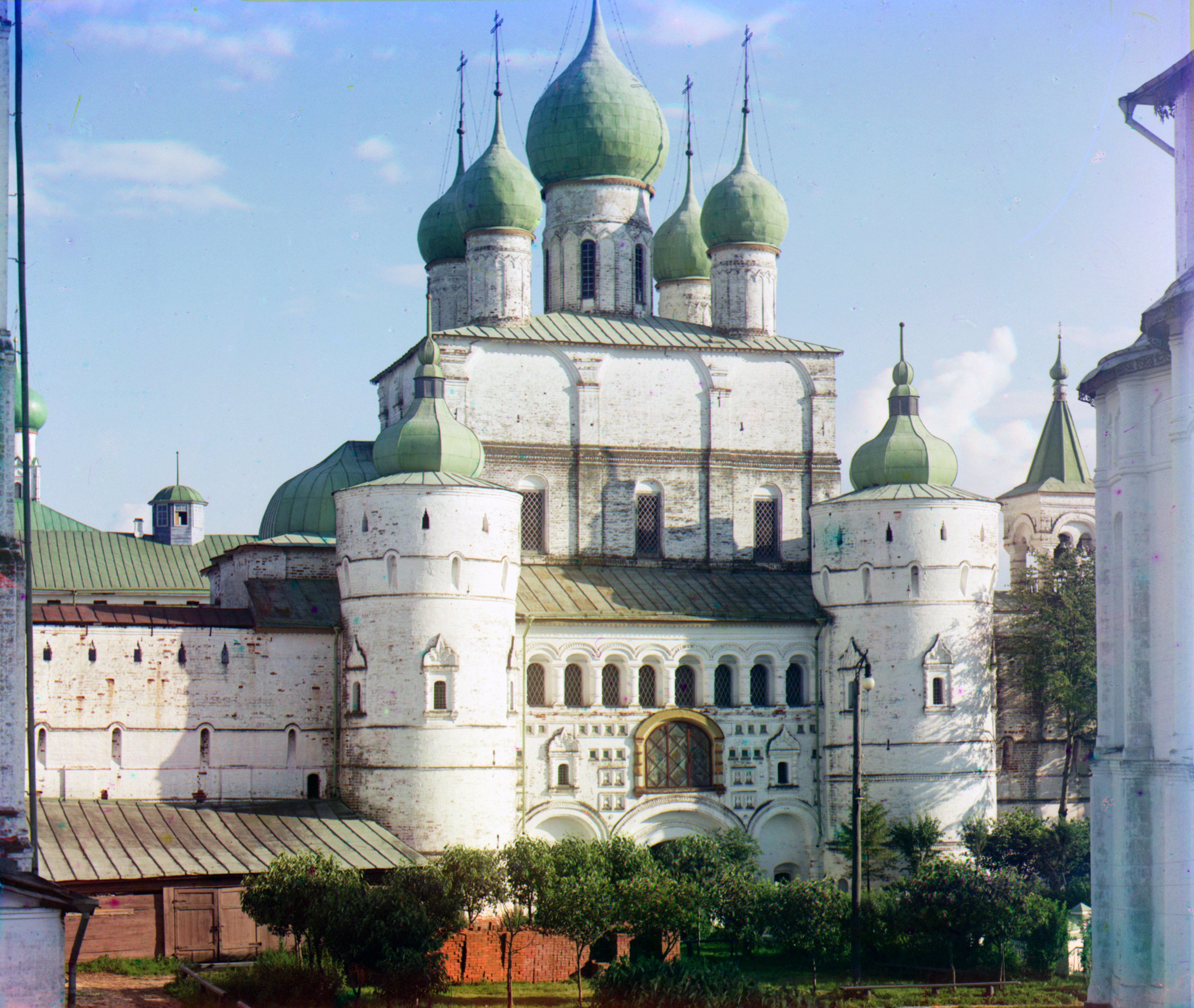 Church of the Resurrection of Christ, in the Kremlin. Rostov Veliki